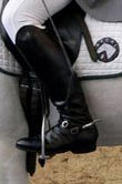 Spur